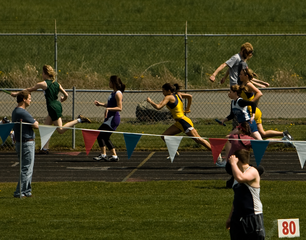 en:4 x 100 metres relay